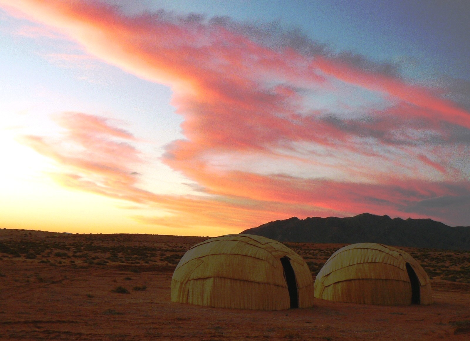 Haru Oms (Nama for 'mat house') is the trandtonal portable housing of the nomadic Nama people, a branch of the KhoiKhoi. This media shows a South African Protected Site with SAHRA file reference 9/2/066/0001.